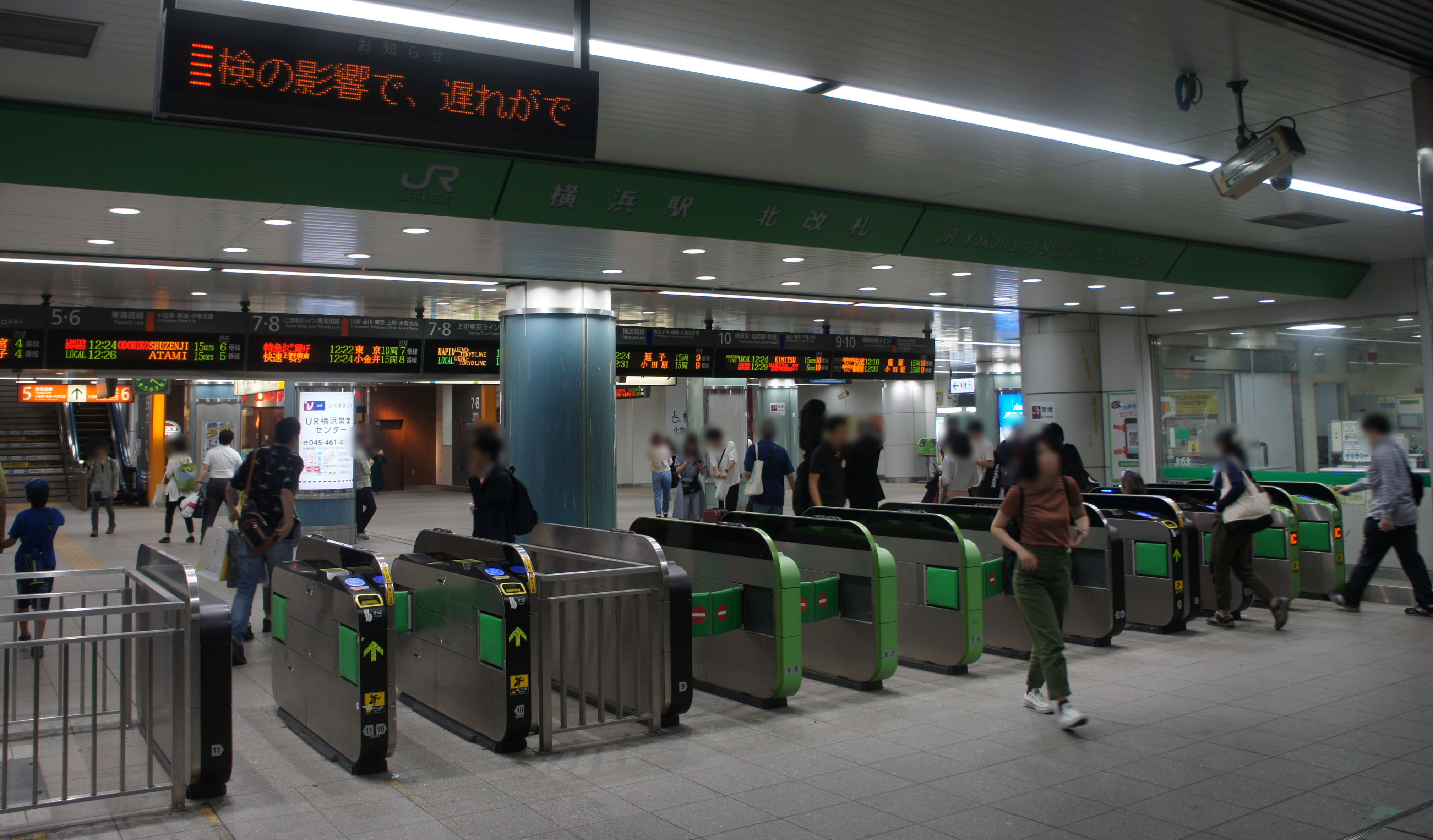 North Gates of JR Yokohama Station